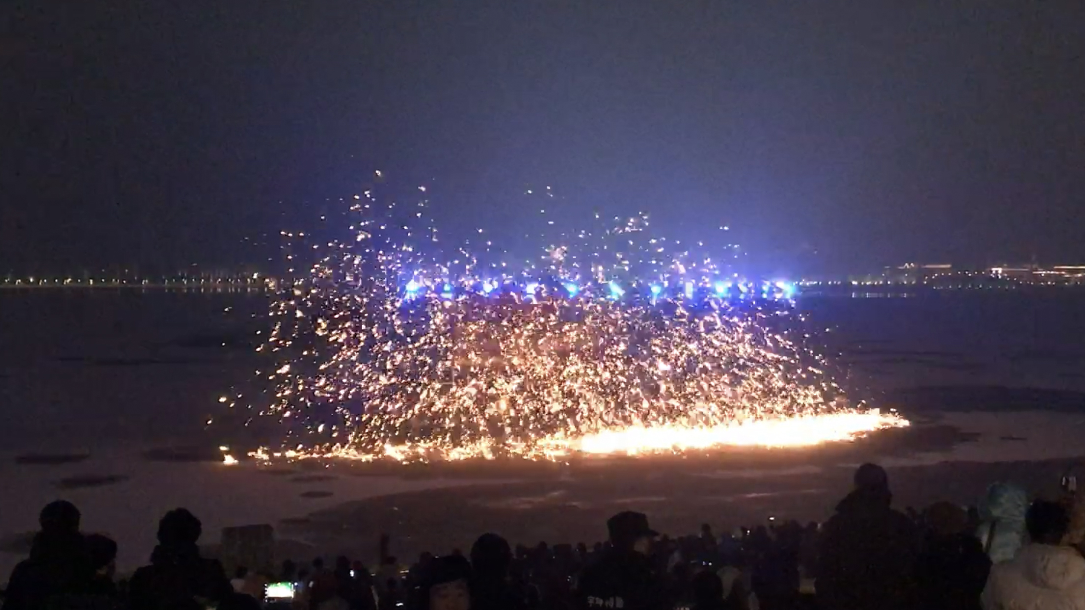 In the Lunar New Year of 2019, the blacksmiths in Hebei province performed Da Shuhua for the local folks to celebrate the festival. Blacksmiths threw the heated iron against the frozen lake to create sparks.